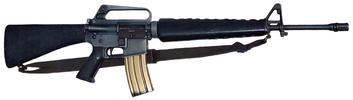 An M16A1, belonging to Indonesia's Brigade Mobil.